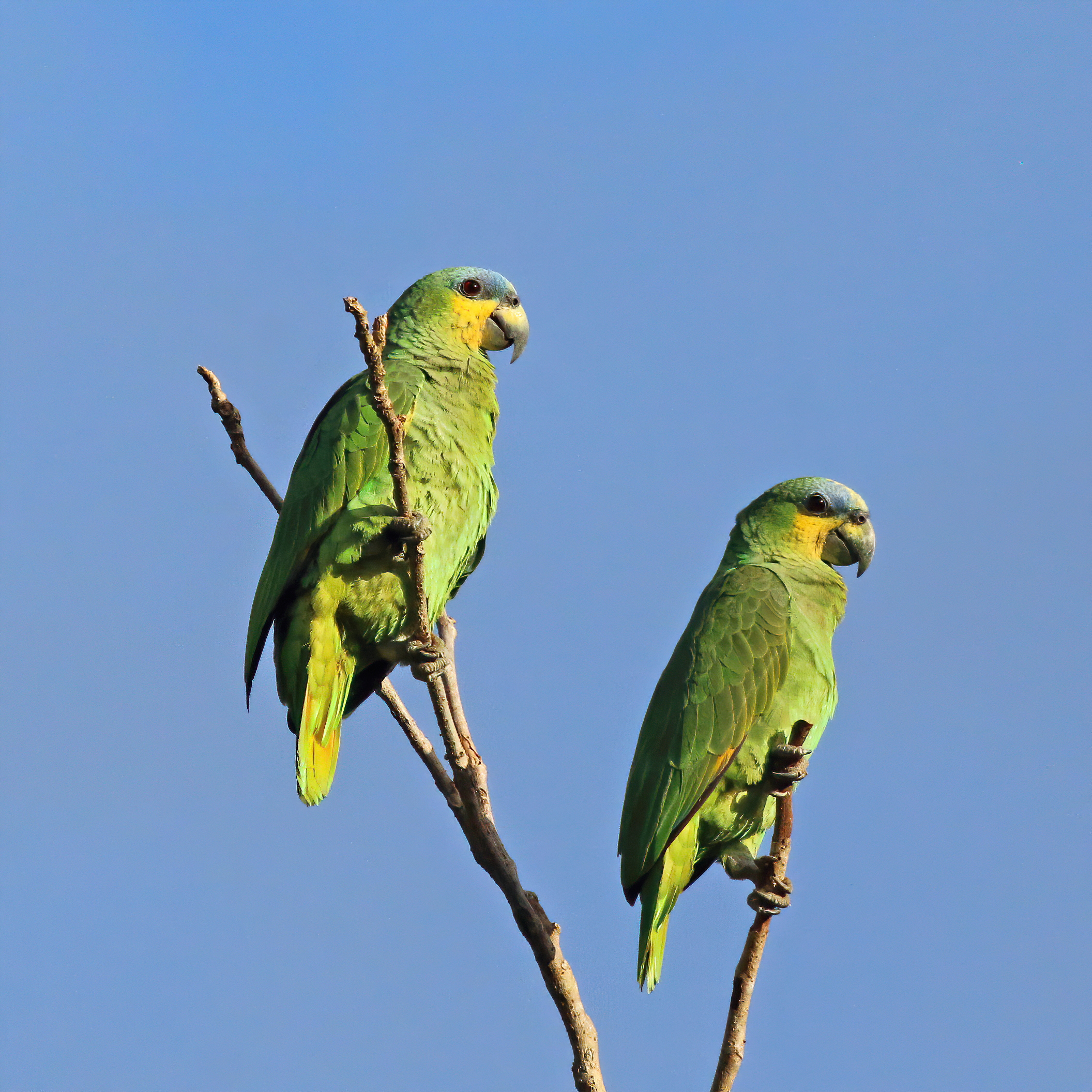 Orange-winged parrots (Amazona amazonica tobagensis), Tobago